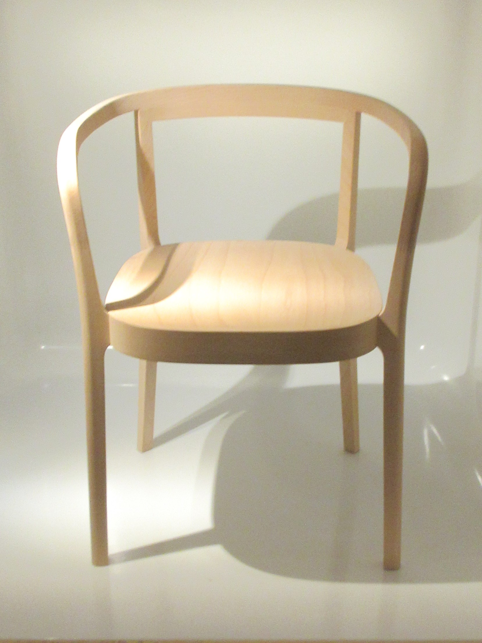 Cecilie Manz's Moky chair from 2016 on display in the Danish Design Museum in Copenhagen, Denmark